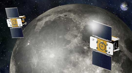 GRAIL probes in moon orbit